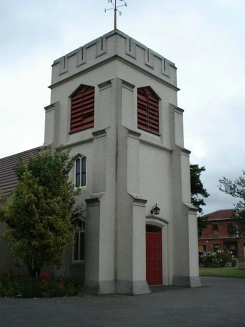 View of: Bell tower of St Johns Church, the Anglican Parish of St John the Evangelist Woolston, Christchurch, New Zealand. Taken from sidewalk of St johns Street, facing south east.